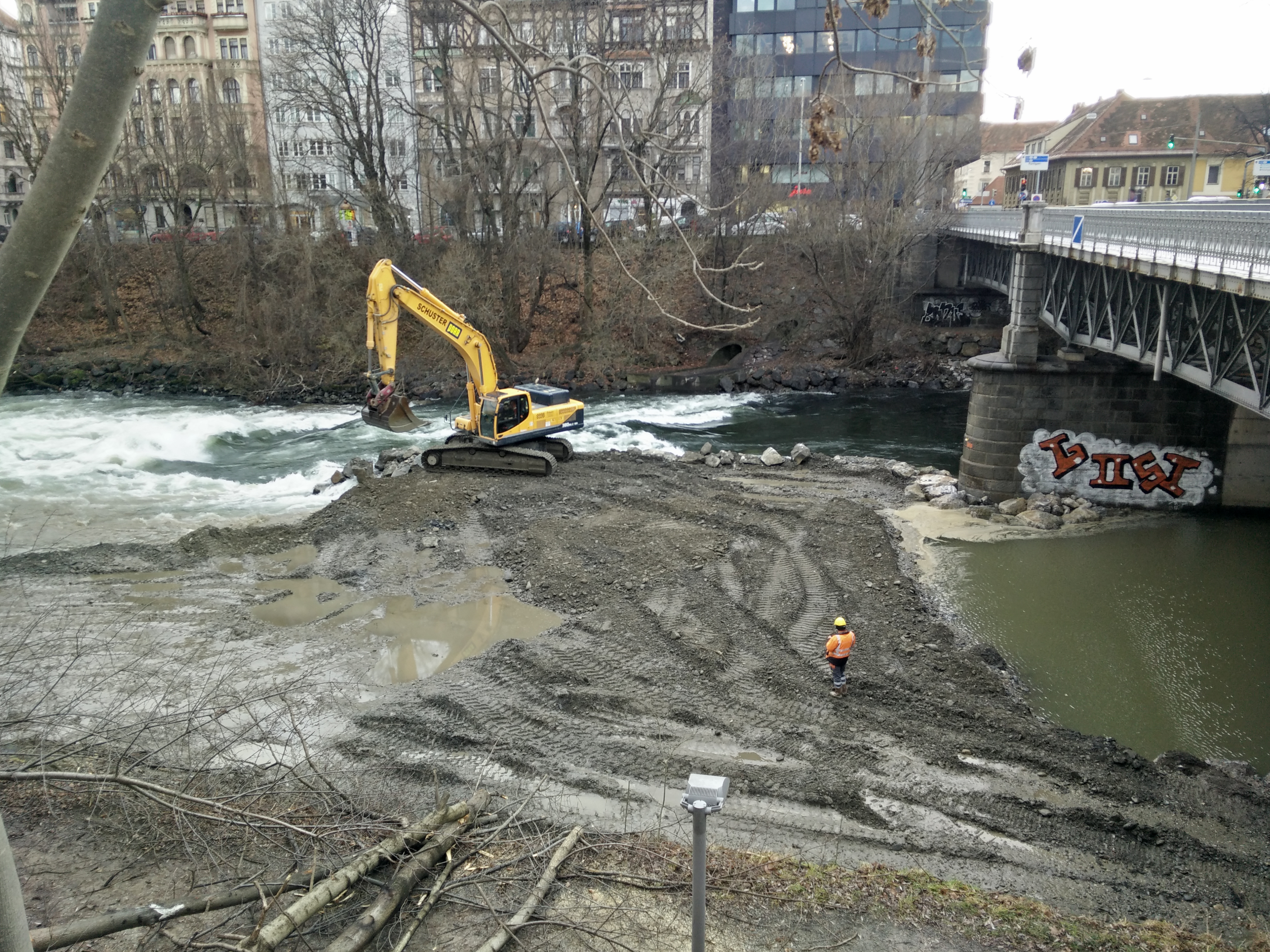 Photo of the river Mur from the Radetzkybridge with the combined sewer overflow storage tunnel under construction.